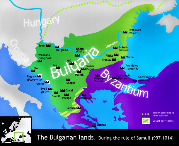 Map of the Bulgarian lands during the rule of Tsar Samuil (997-1014)